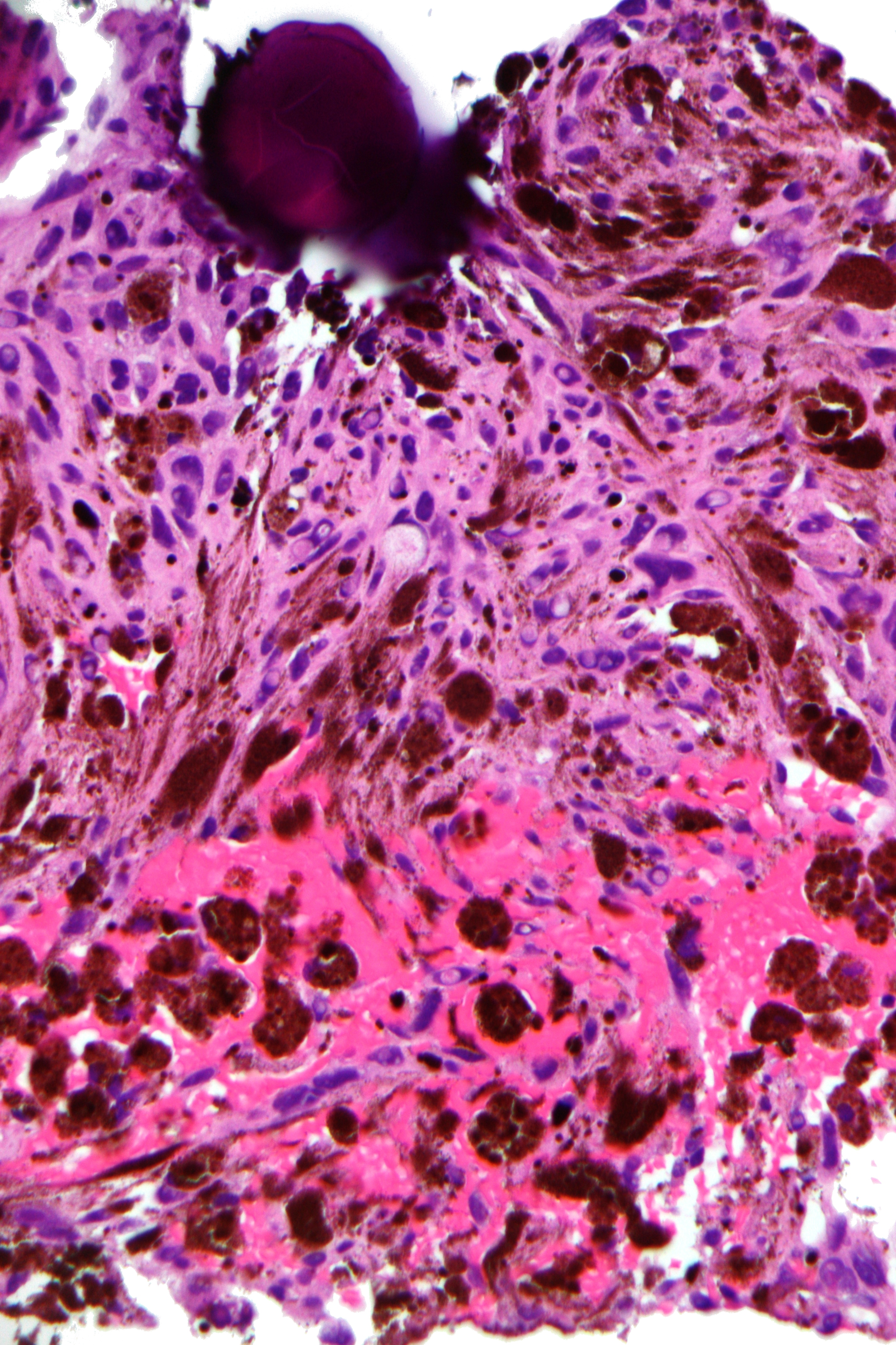 Very high magnification micrograph of a psammomatous melanotic schwannoma. H&E stain. Related images High mag. Very high mag. Very very high mag.